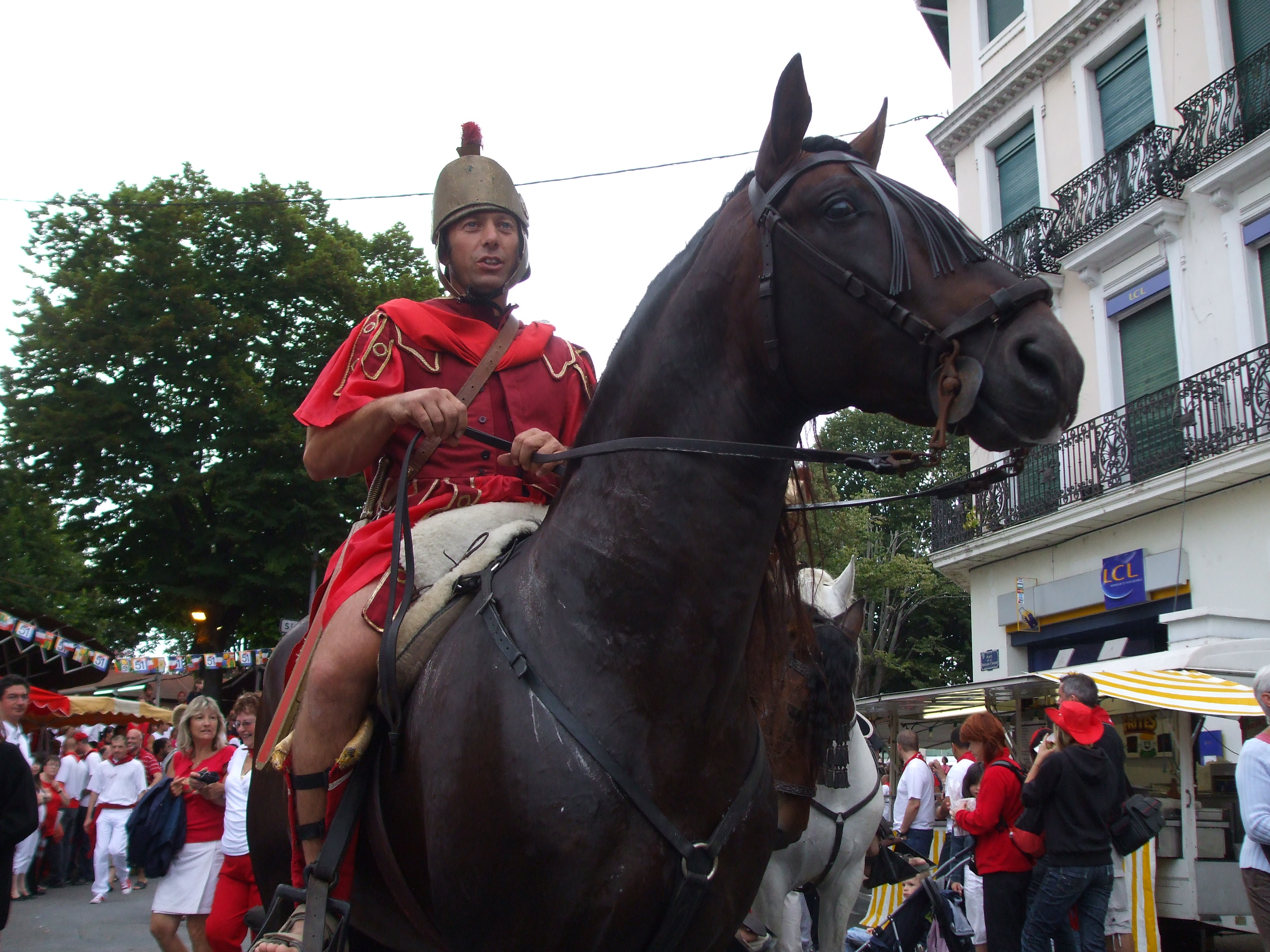 Roman horse rider in the opening parade of festivals Dax (France), 2008/08/12